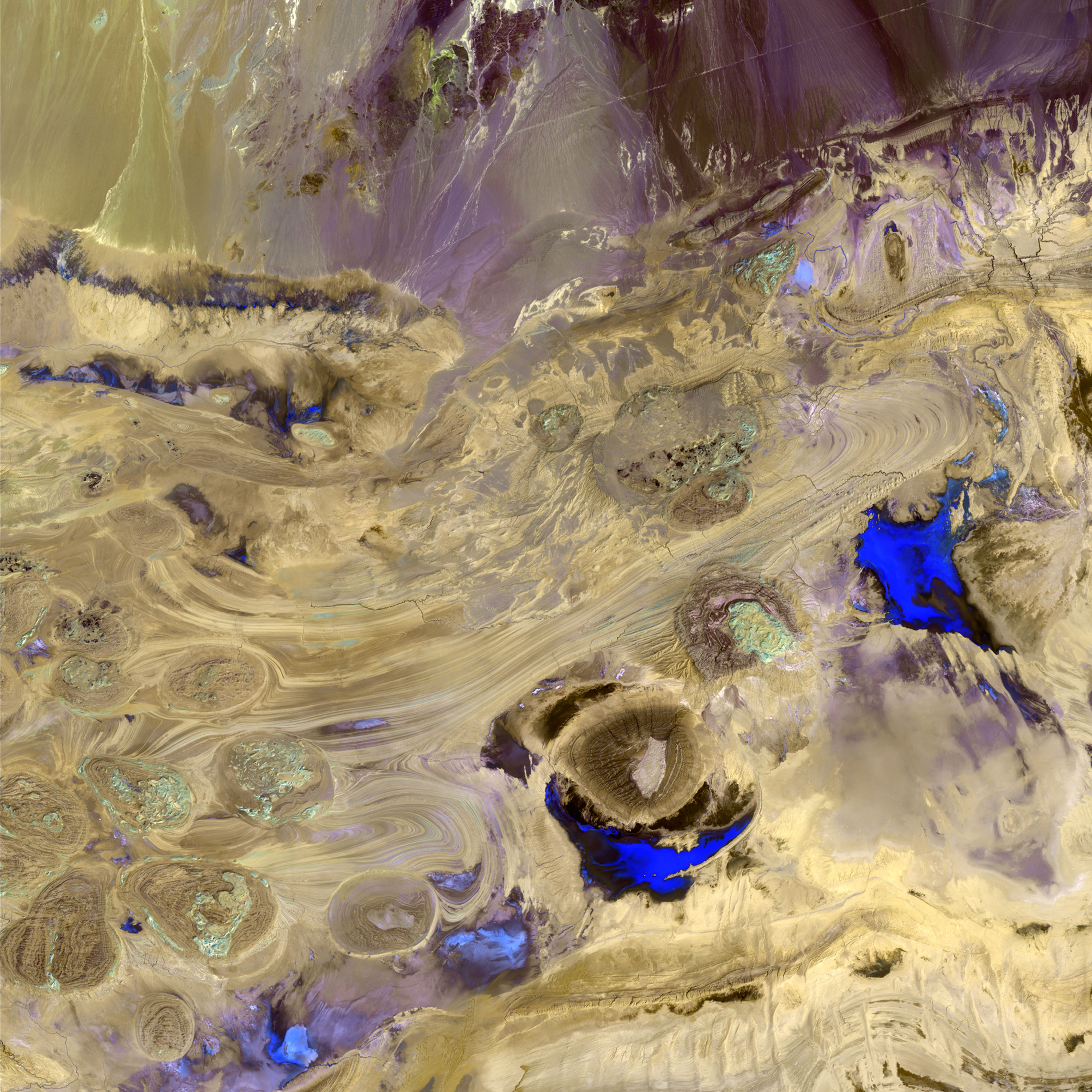 This image of Iran’s largely uninhabited Dasht-e Kavir, or Great Salt Desert was acquired by Landsat 7’s Enhanced Thematic Mapper plus sensor.